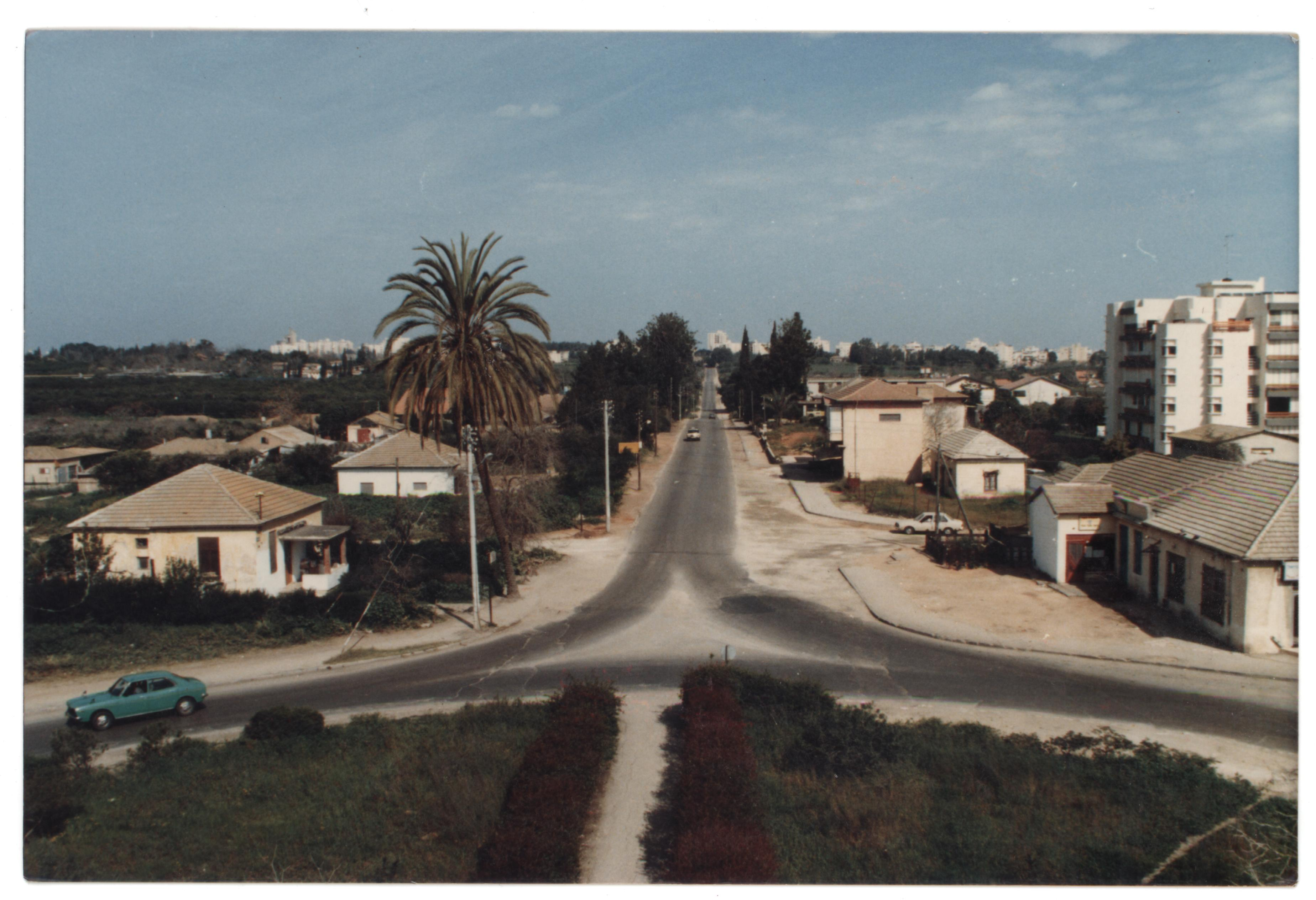 mgidial, Sokolov Street in the sixties of the twentieth century.from the Synagogue yard shot.